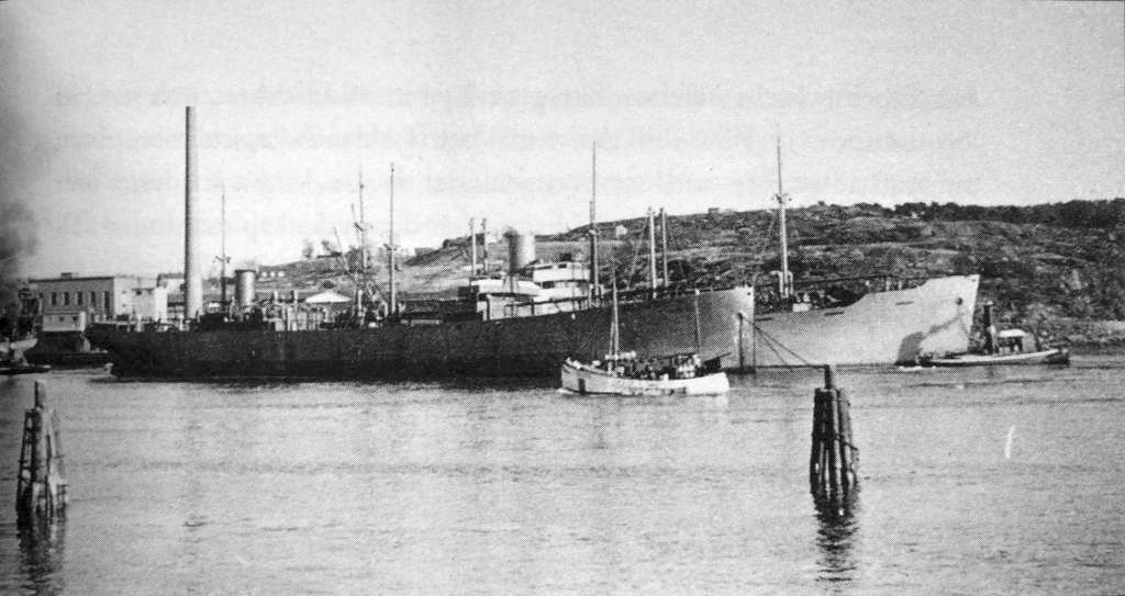 The norwegian "Kvarstadships" M/S Dicto and M/S Lionel is moored at Röda Sten in Gothenburg harbour during WWII.